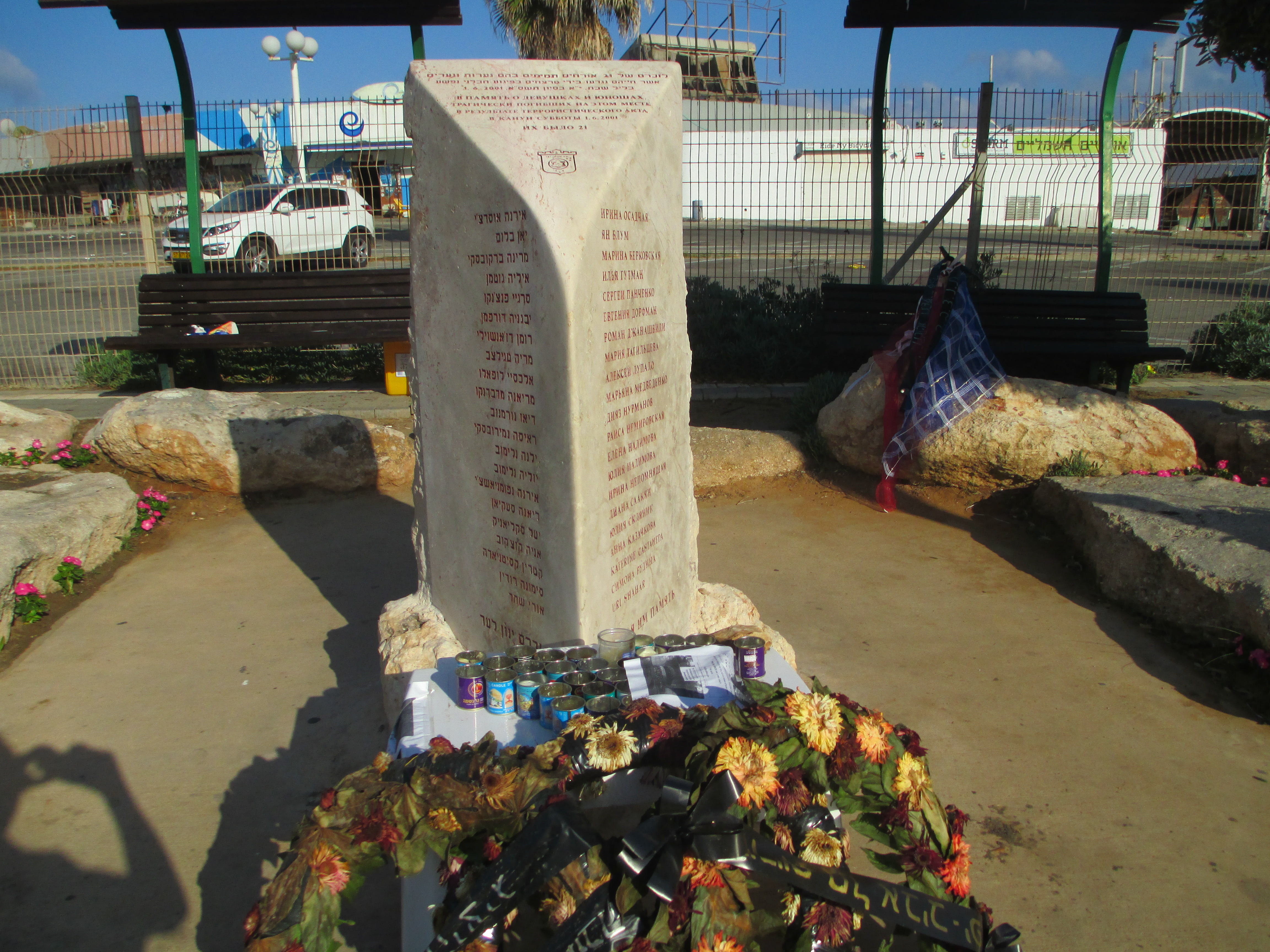 Dolphinarium Massacre Memorial in Tel Aviv